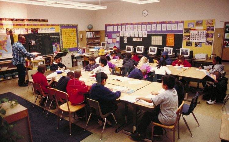 Elementary School of USA.